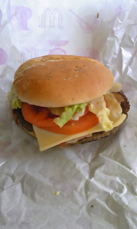 This is a picture of "New York Burger".